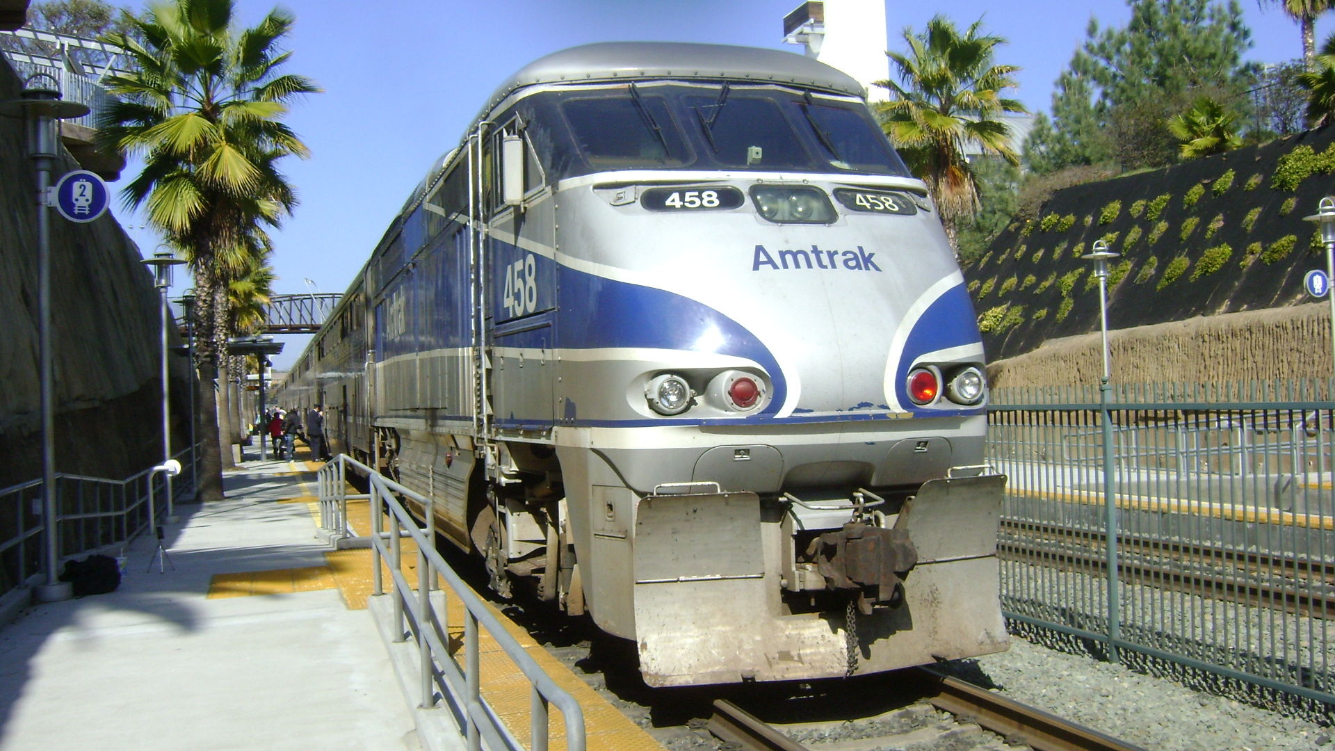 Amtrak Pacific Surfliner at Solana Beach, California.